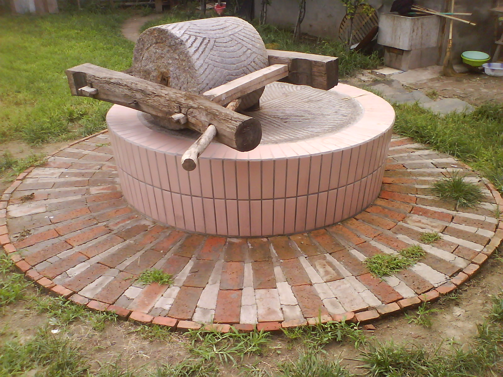 This is a doufu moulder, allowing to extract soya milk (豆浆) in Beijing, China